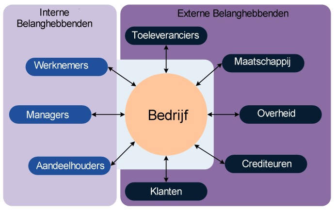 The picture shows the typical stakeholders of a company. The stakeholders are divided in internal and external stakeholders.